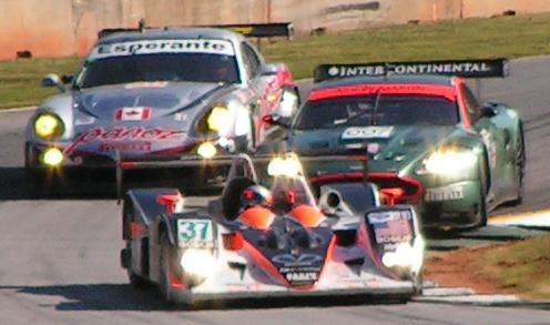 ALMS cars at the 2006 Petit Le Mans